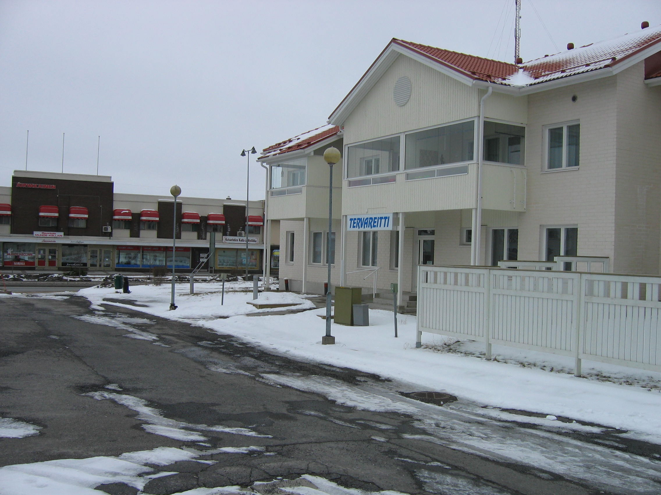 The office of the newspaper Tervareitti in Muhos, Finland.